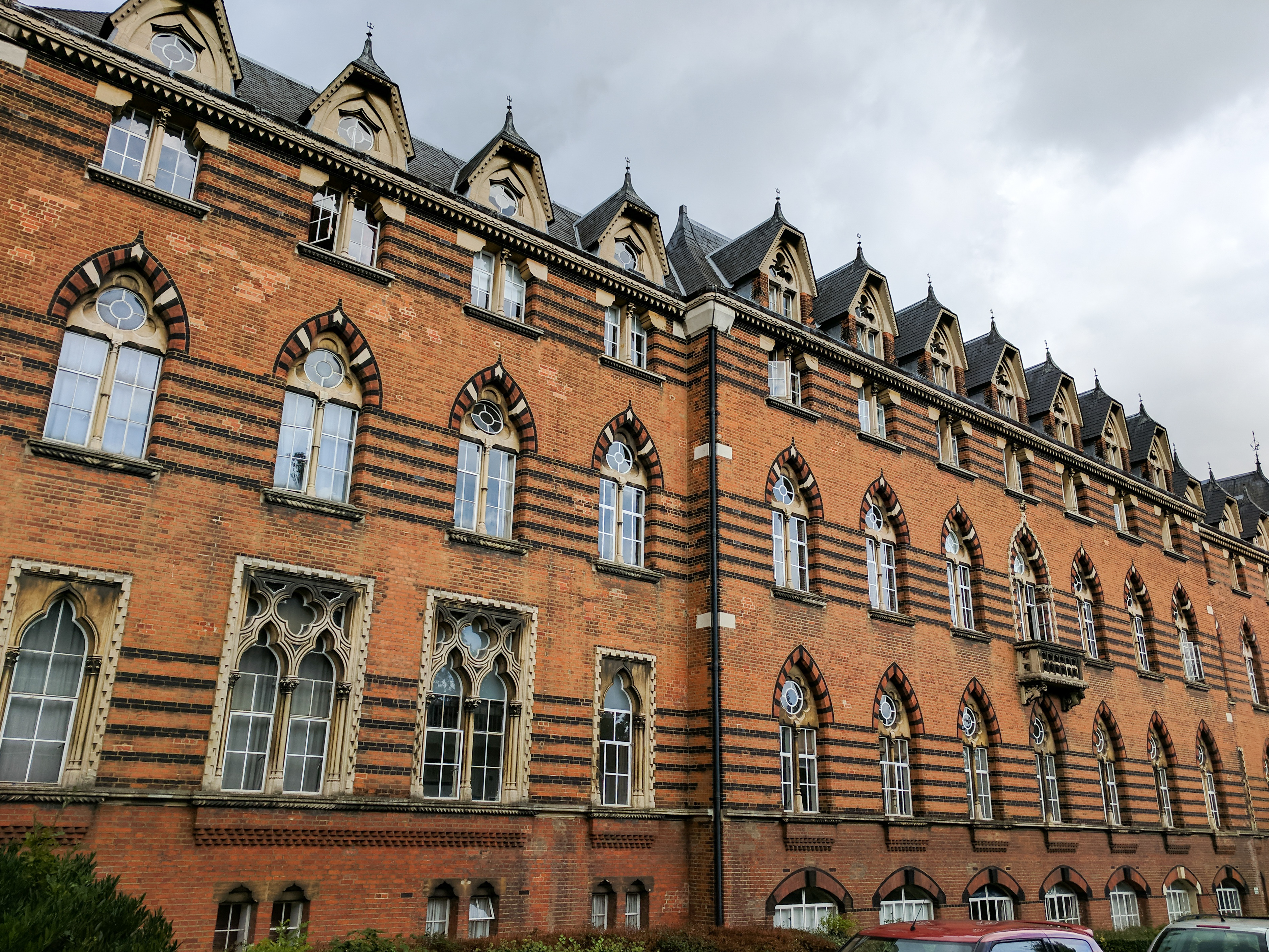 Former Merchant Seamen's Orphan Asylum At Wanstead Hospital. Wikidata has entry Q17553287 with data related to this item.